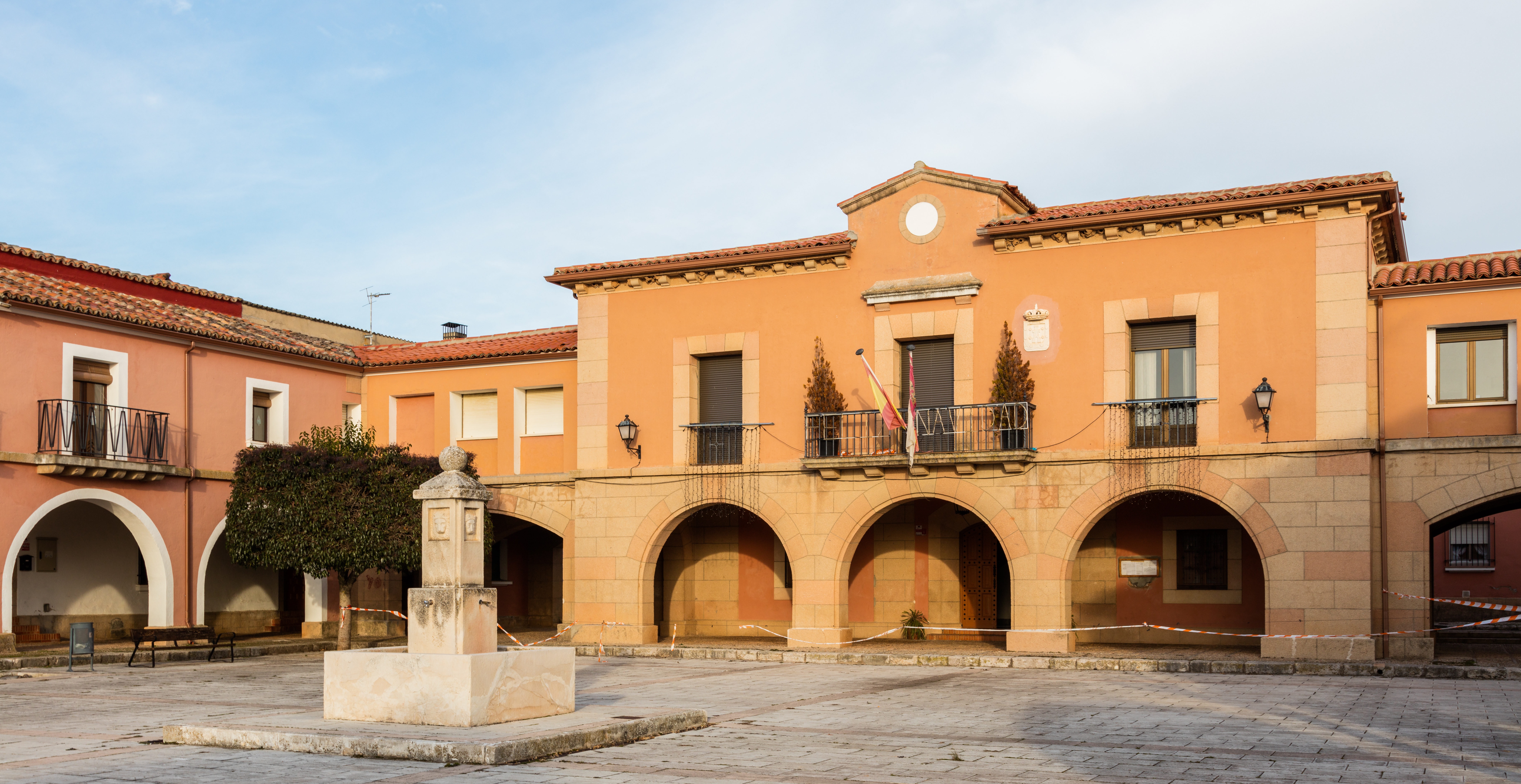 Town hall, Masegoso de Tajuña, Guadalajara, Spain